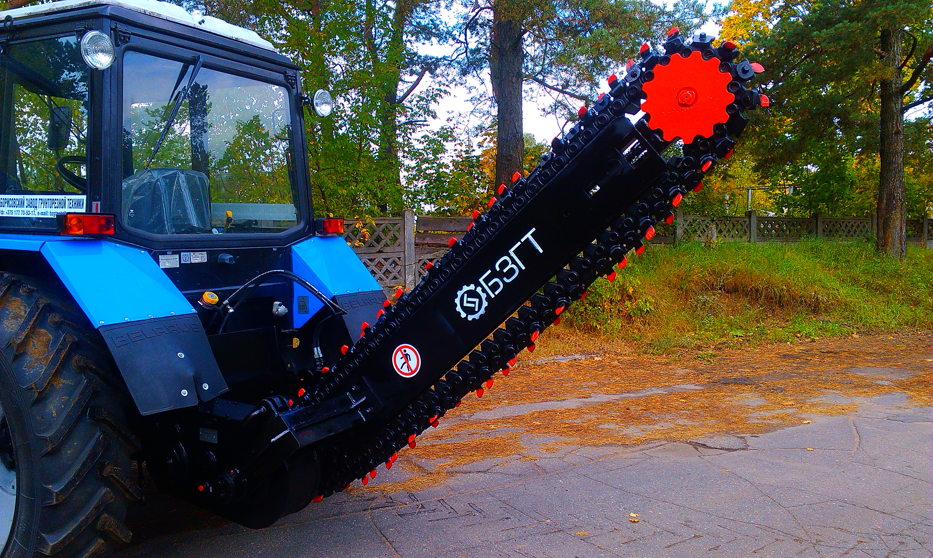 trencher